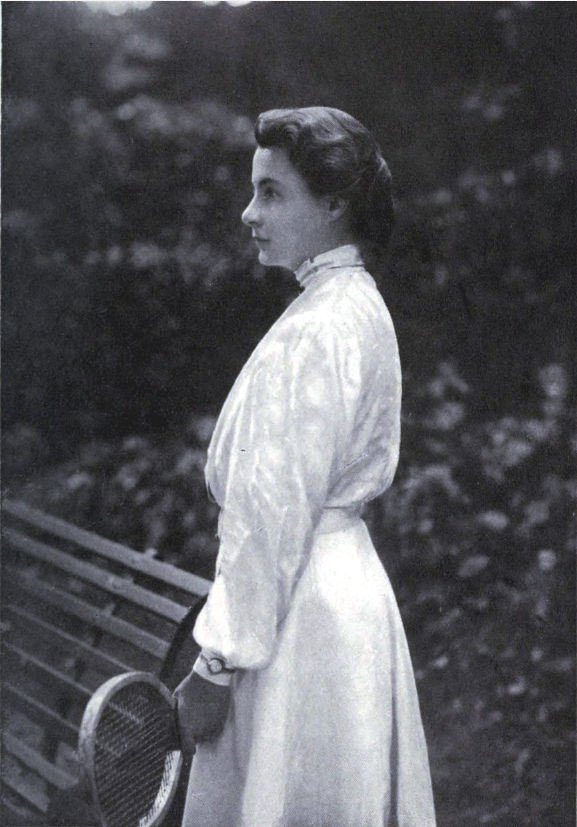 Ethel Thomson Larcombe